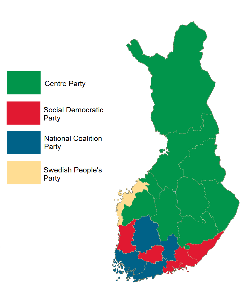 Finnish parliamentary election results by province, 1999